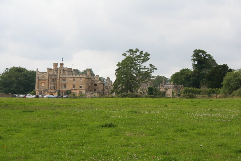 Farleigh Castle, now Farleigh College in Somerset, England